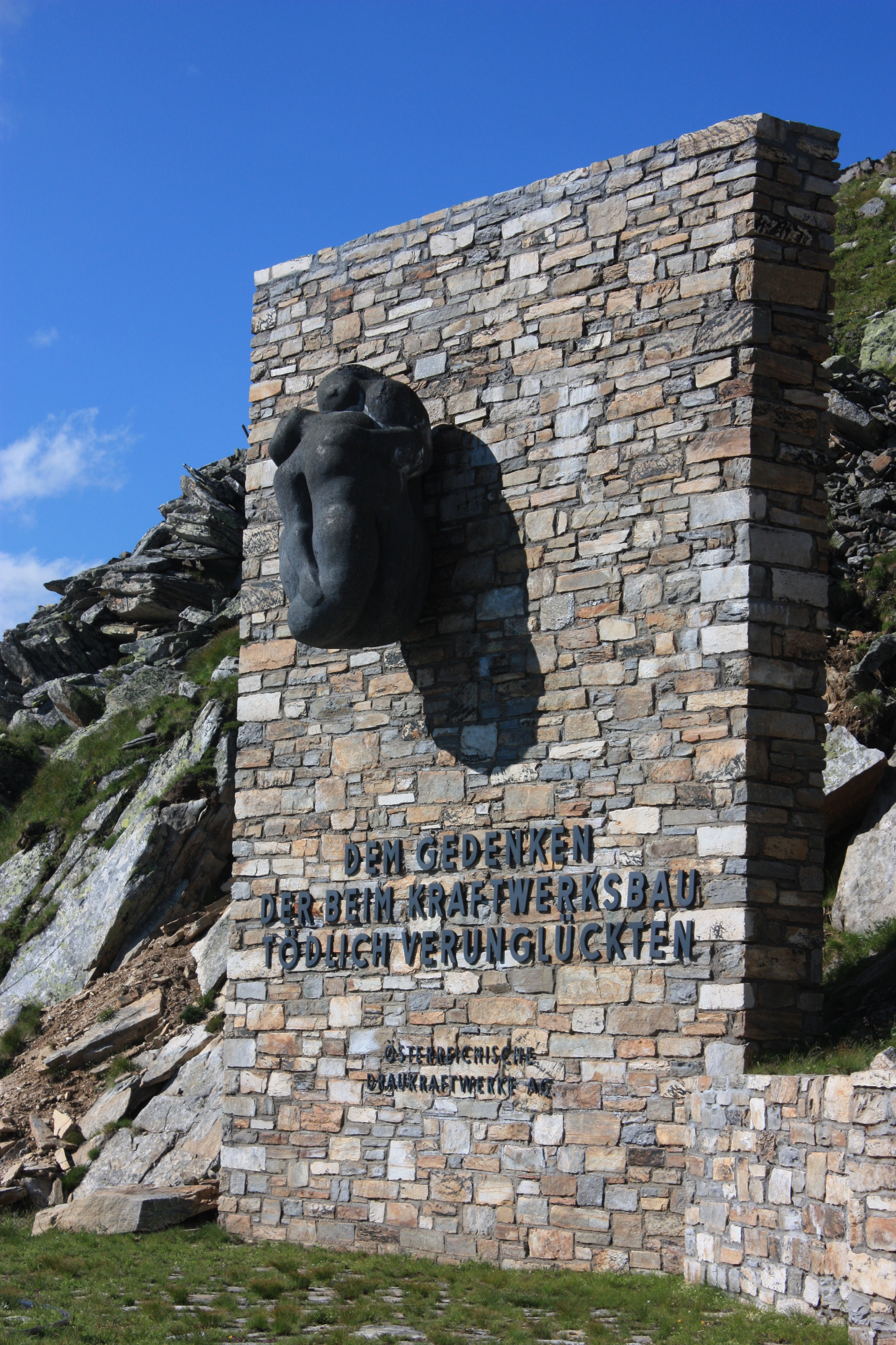 Reißeck-Höhenbahn: Monument Community:Reißeck